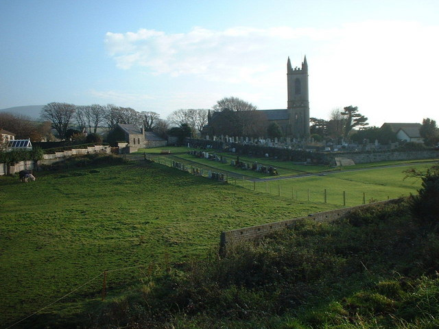 Kirk Michael Church